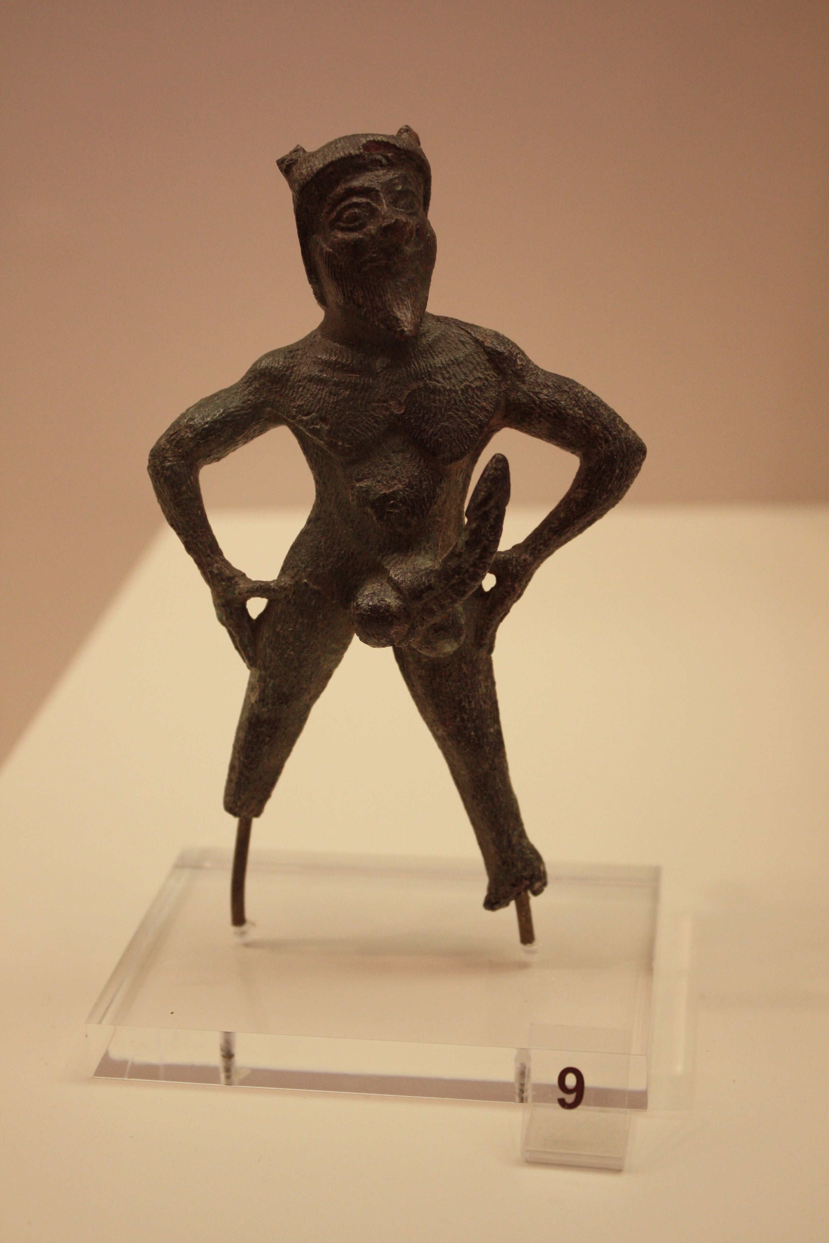 According to the archeological museum of Olympia where this figurine is exhibited : "Figurine of a Silenus. Probably from an Eleian Workshop. 6th c. BC."